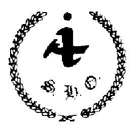 Sancti Hieronymi Ordo